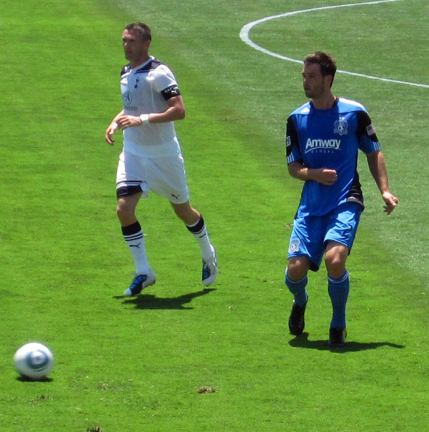 Robbie Keane of Spurs, Bobby Burling of the Earthquakes